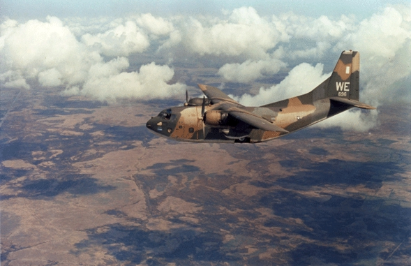 A Fairchild C-123K Provider (s/n 54-0696) of the 19th Air Commando Squadron, 315th Air Commando Wing, on a paratrooper dropping mission over the Mekong Delta, South Vietnam, on 27 March 1969. This aircraft was turned over to the South Vietnamese Air Force (VNAF) in 1972.